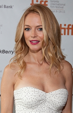 Heather Graham at the 2011 Toronto International Film Festival.